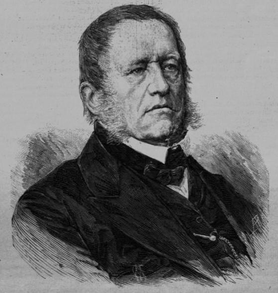 Portrait of František Palacký